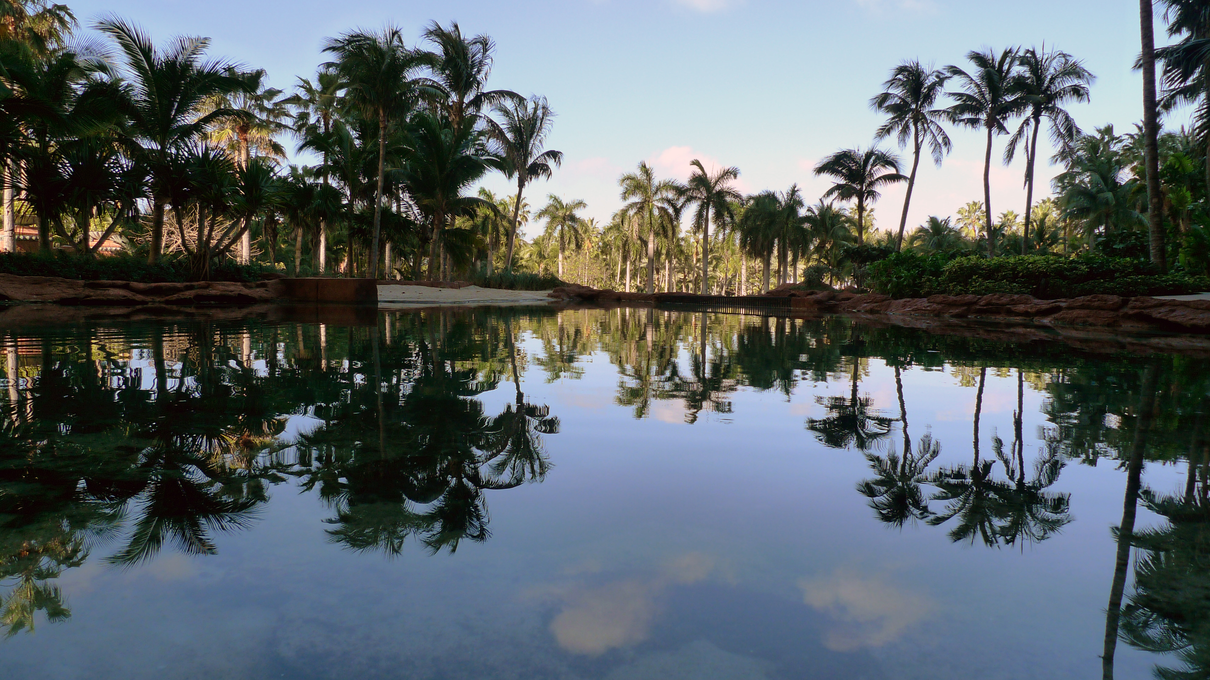 Upper Lagoon reflective pond at Atlantis Paradise Island. Photo D Ramey Logan. Iinvert this photo 180% for a remarkable effect